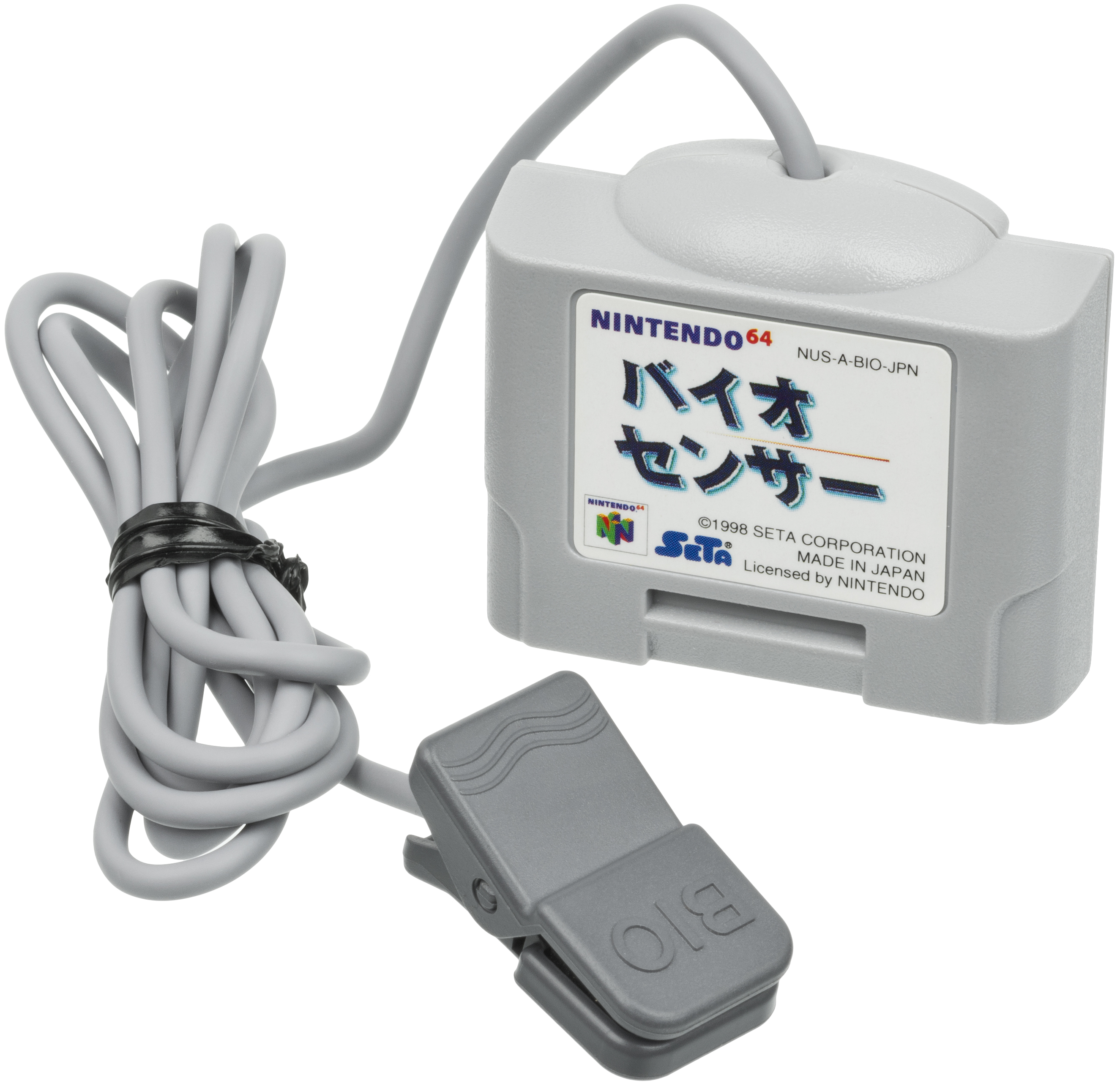 The Nintendo N64 bio sensor, a Japan-only accessory that was produced by SETA. It was used for one game, Tetris 64, and worked by plugging into the controller's expansion port and attached the bio clip to your earlobe.